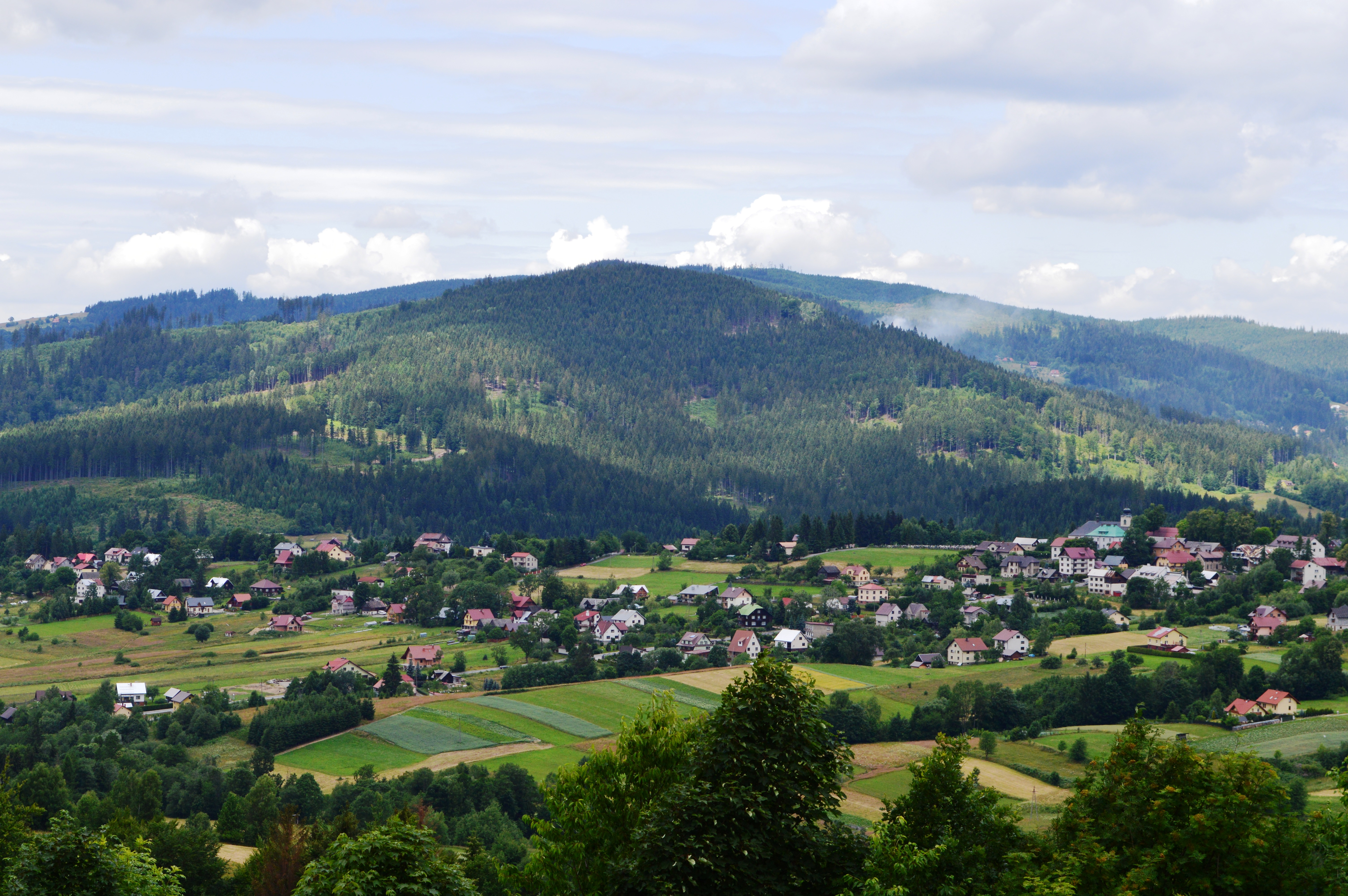 View of Istebna, Poland. The Scotch Mist Gallery contains many photographs of historic buildings, monuments and memorials of Poland.